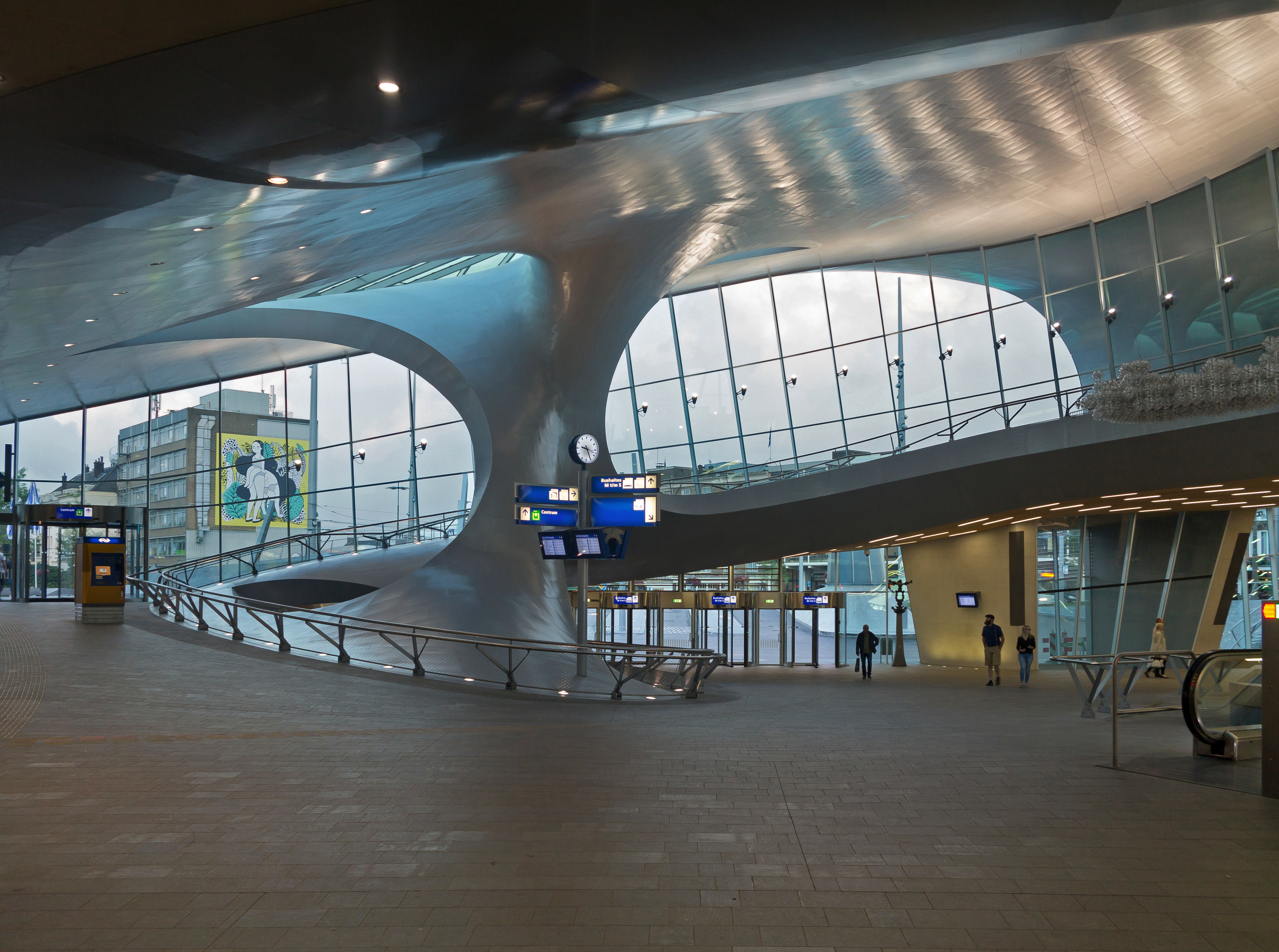 Arnhem, de Scheepsschroef (sculpture in train station)